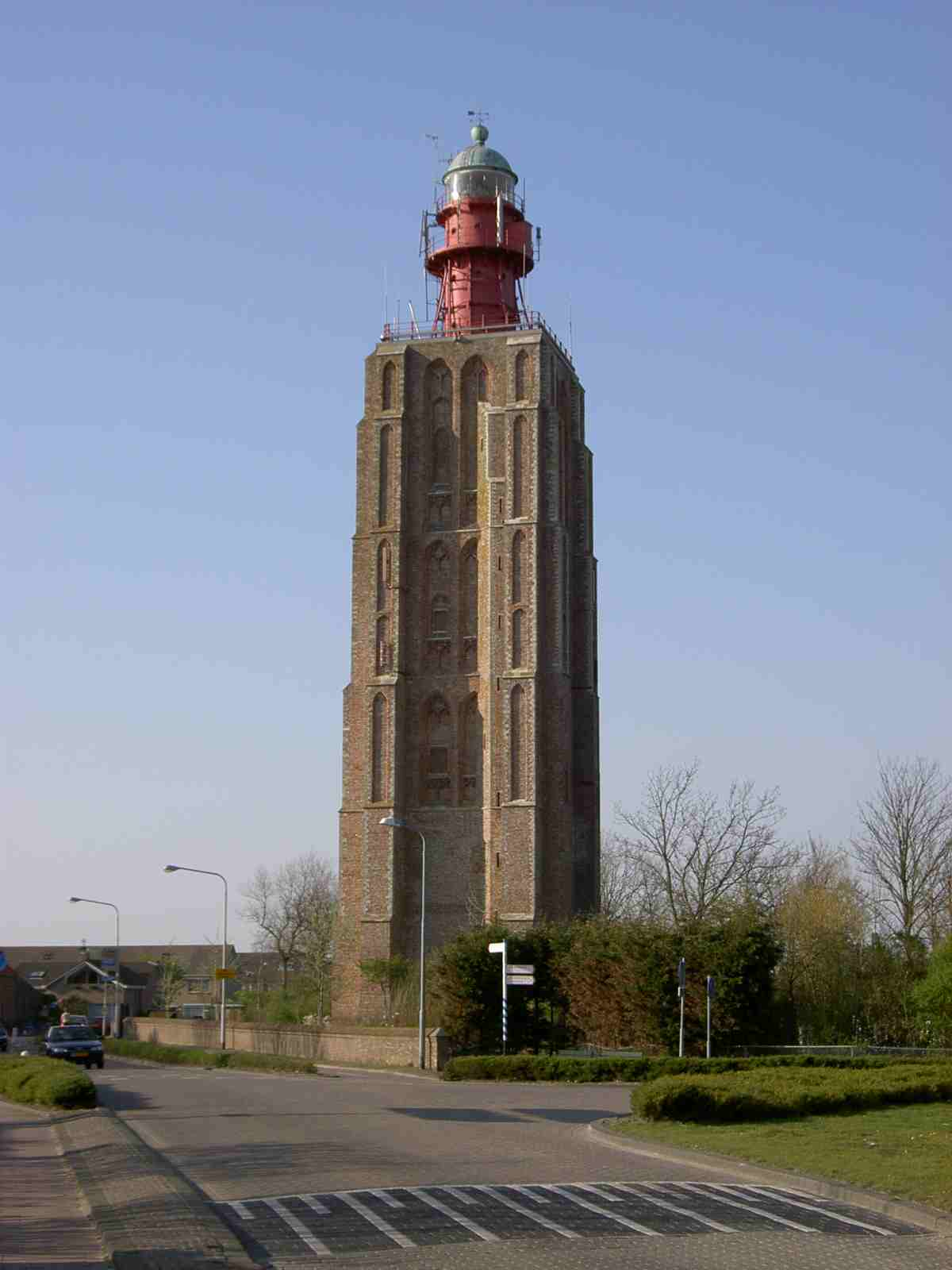 Mediaeval lighthouse in Westkapelle (Walcheren) in the Netherlands . Province Zeeland.